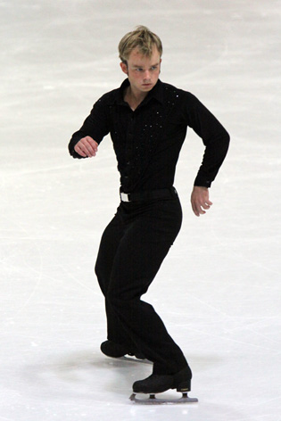 Stefan LINDEMANN at the 2009 Nebelhorn Trophy.